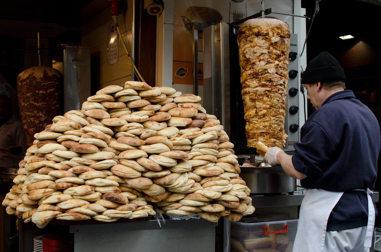 Kebab and pita Istanbul. turkey